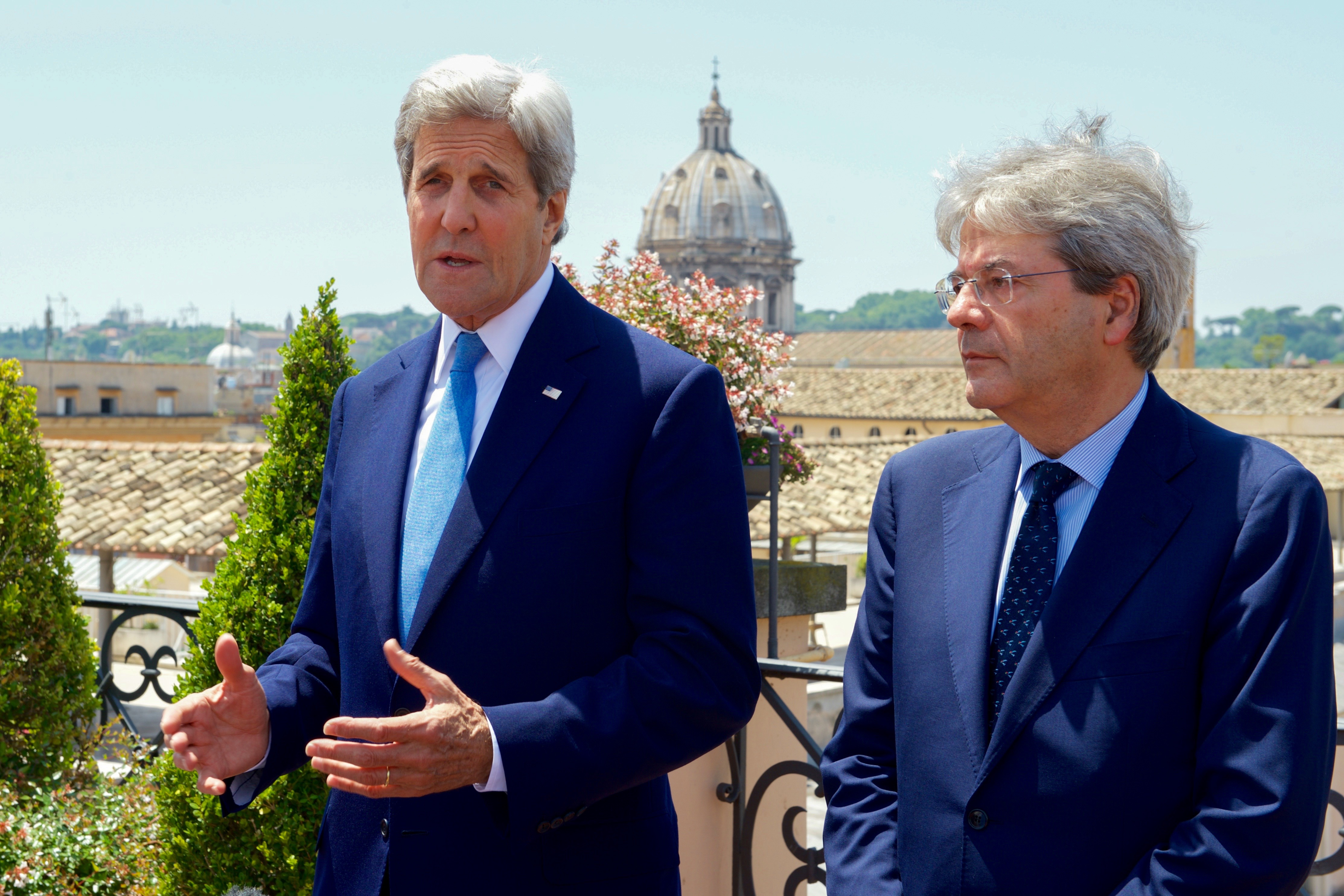 U.S. Secretary of State John Kerry and Italian Foreign Minister Paolo Gentiloni deliver press statements on June 26, 2016, before a working lunch at the Rooftop Restaurant at the Grand Hotel La Minerve in Rome, Italy. [State Department photo/ Public Domain]